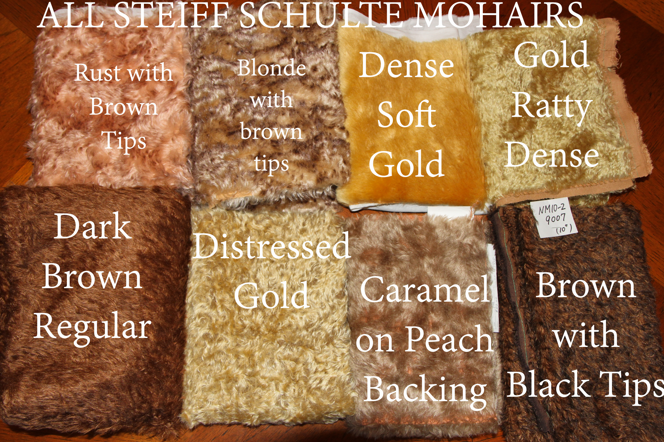 These are all Steiff... I didn't have room to write STEIFF on each fabric ...